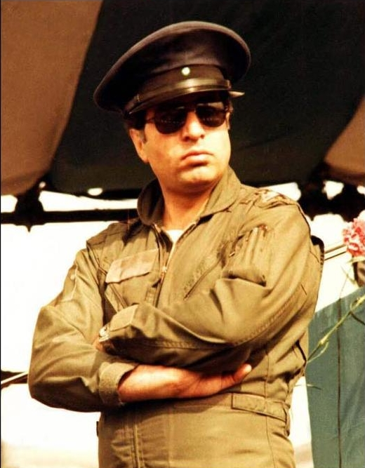 nothing.